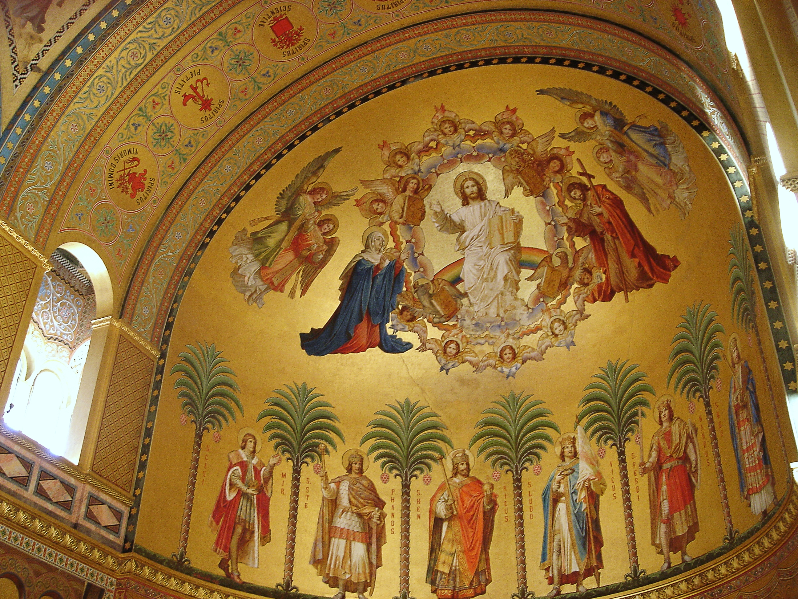 Interior design of Neuschwanstein Castle